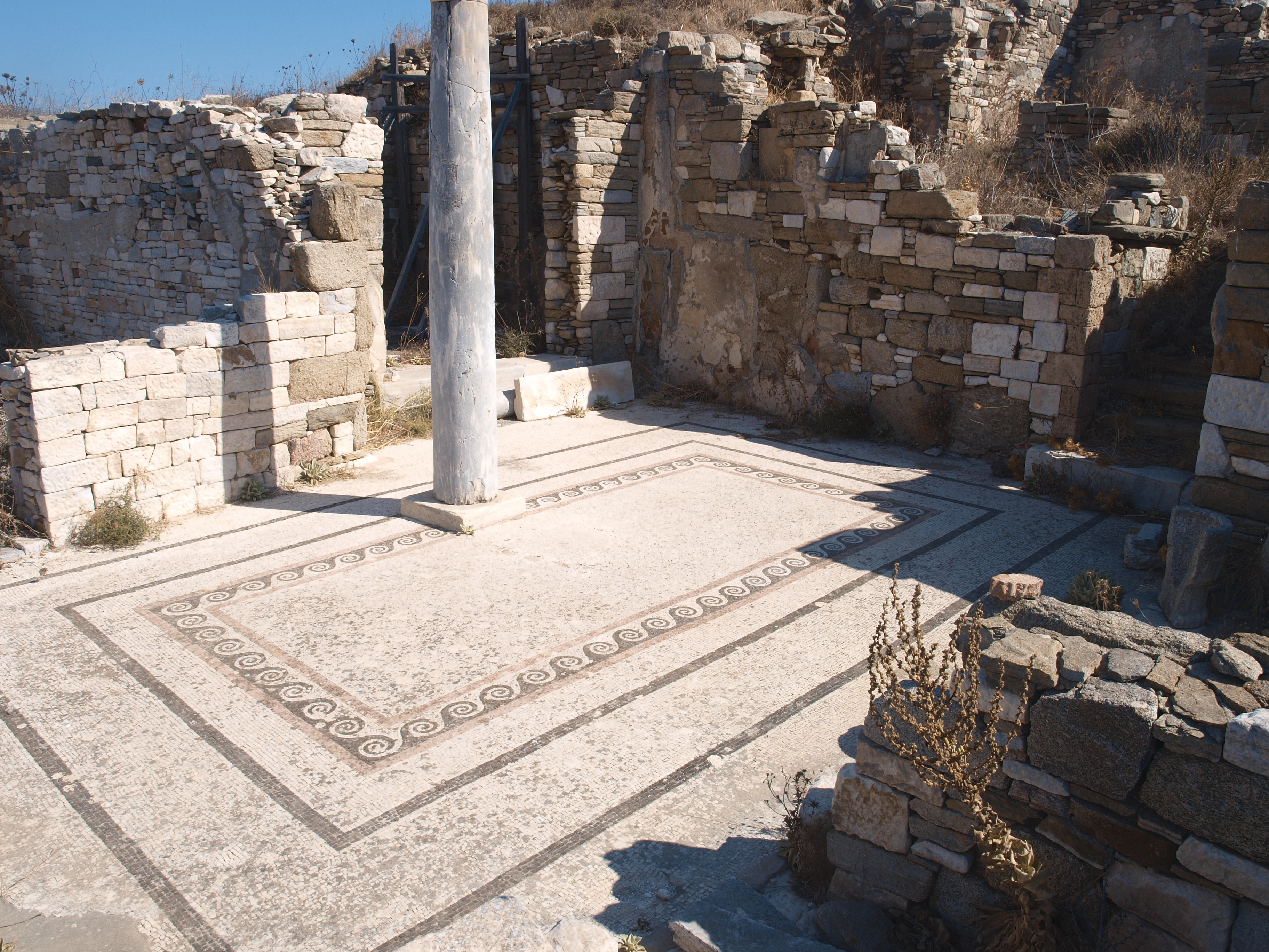 AWIB-ISAW: Houses on Delos (XIII) A decorated mosaic floor, with a marble column still standing, in a chamber of a house on the Greek island of Delos. by Irene Soto (2010) copyright: 2010 Irene Soto (used with permission) photographed place: Delos (Delos) Published by the Institute for the Study of the Ancient World as part of the Ancient World Image Bank (AWIB). Further information